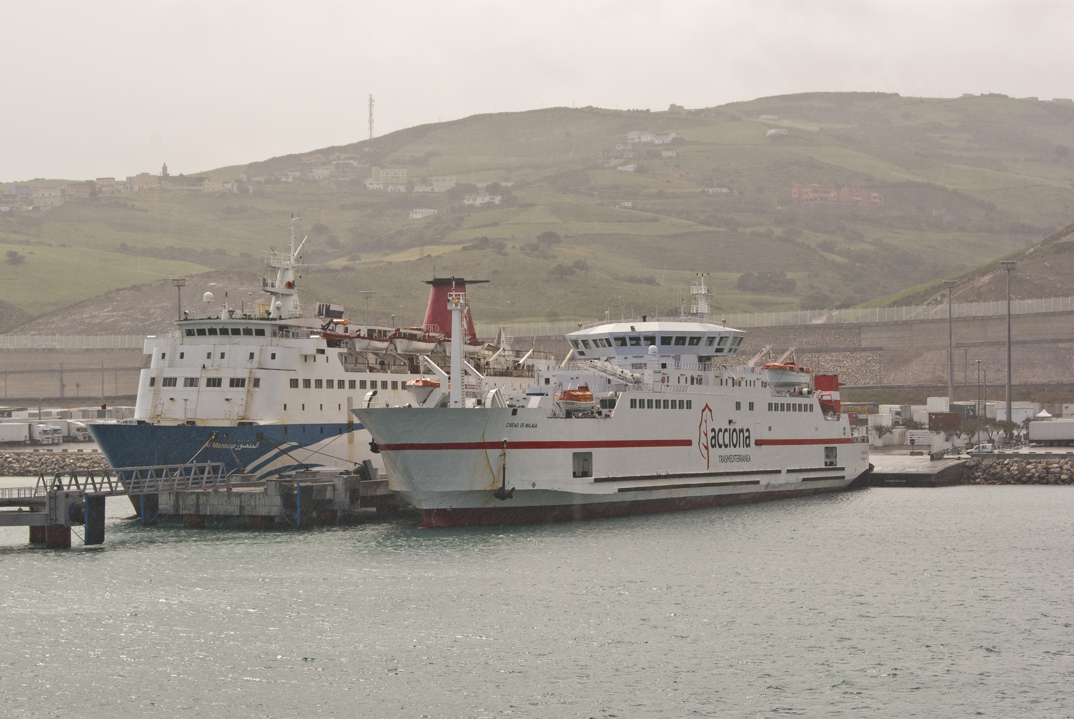 Ferry pier of Tanger Med port